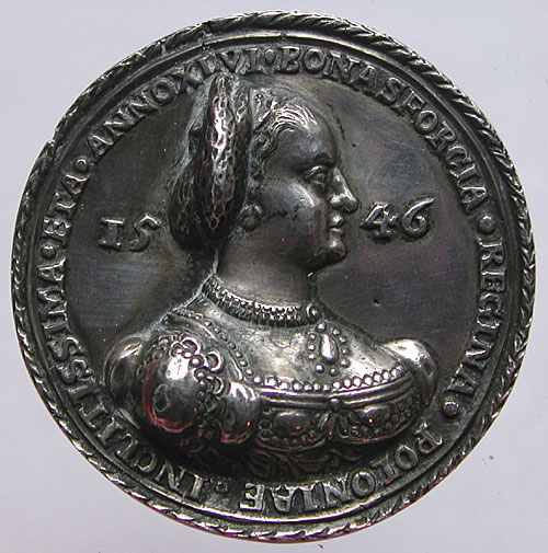 Bona Sforza (1494-1557) Queen of Poland and Duchess of Bari